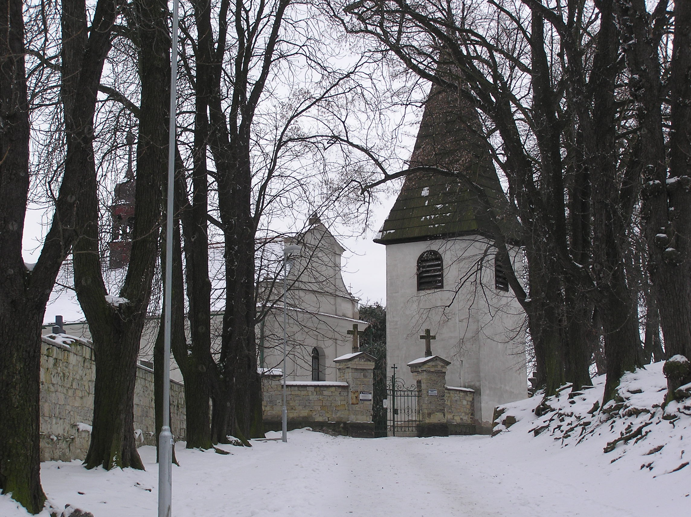 Church of Saint Martin in Domoušice and the bell tower